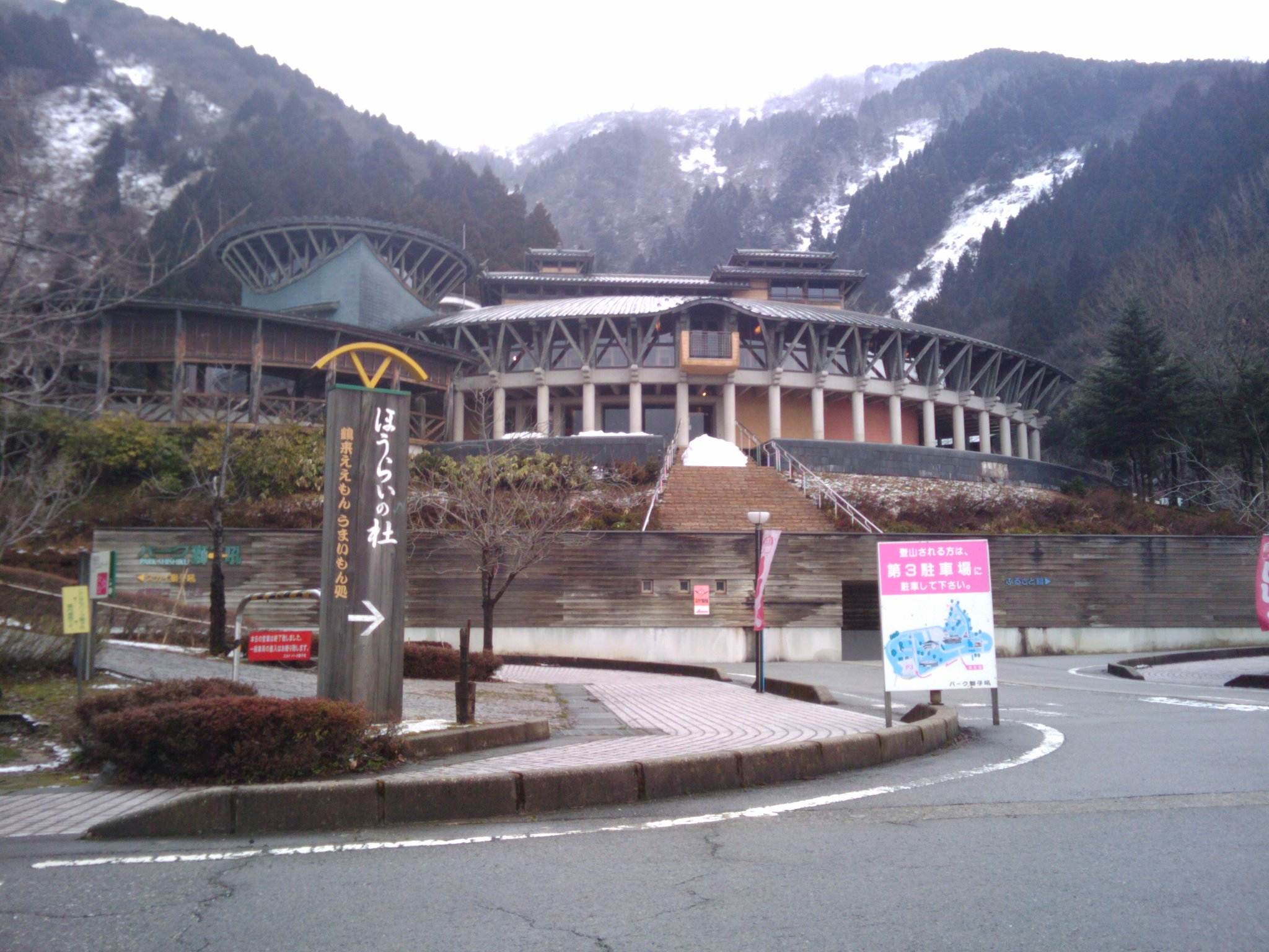 Park Shishiku (Hakusan, Ishikawa, Japan)